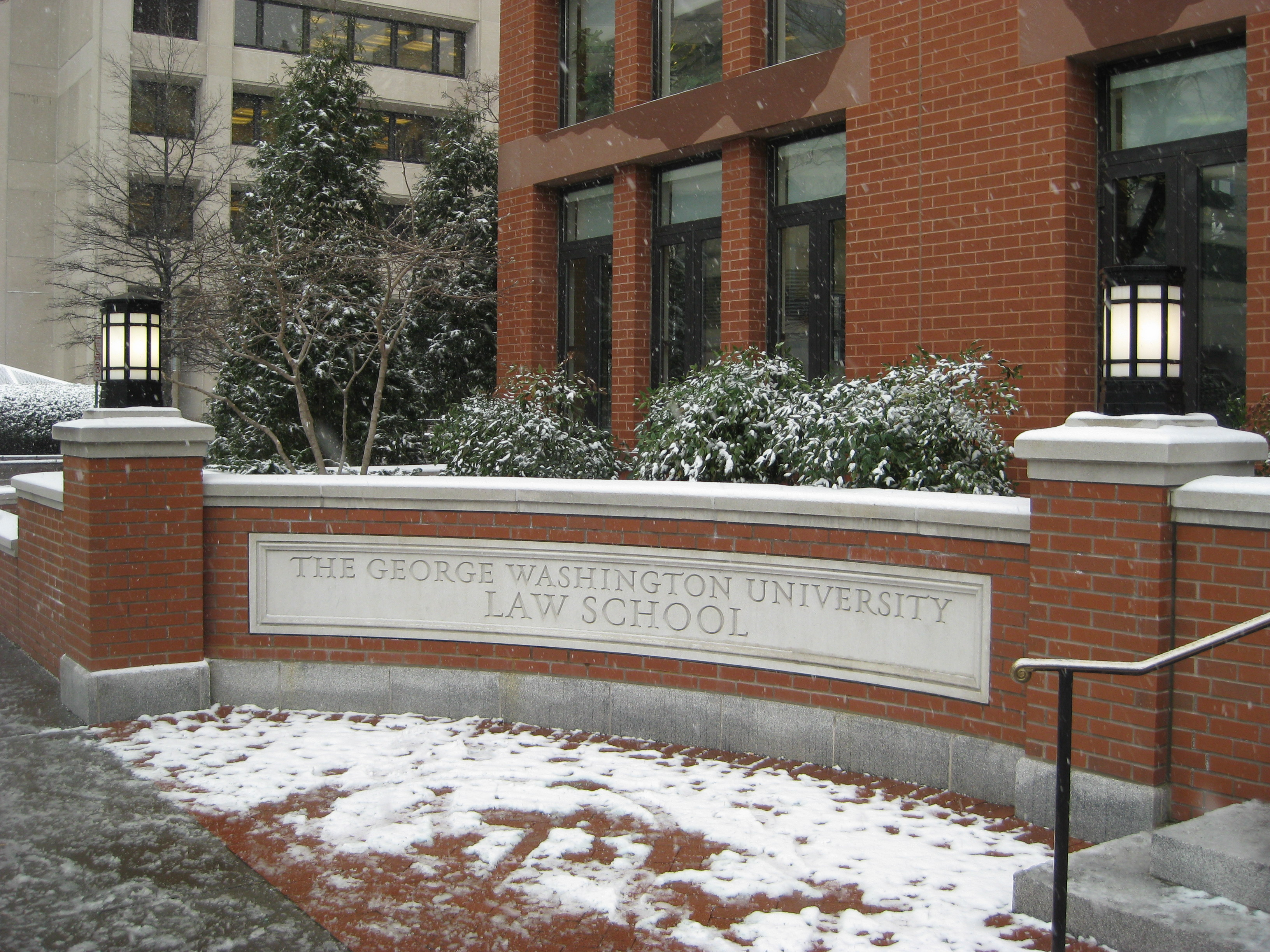 GW Law